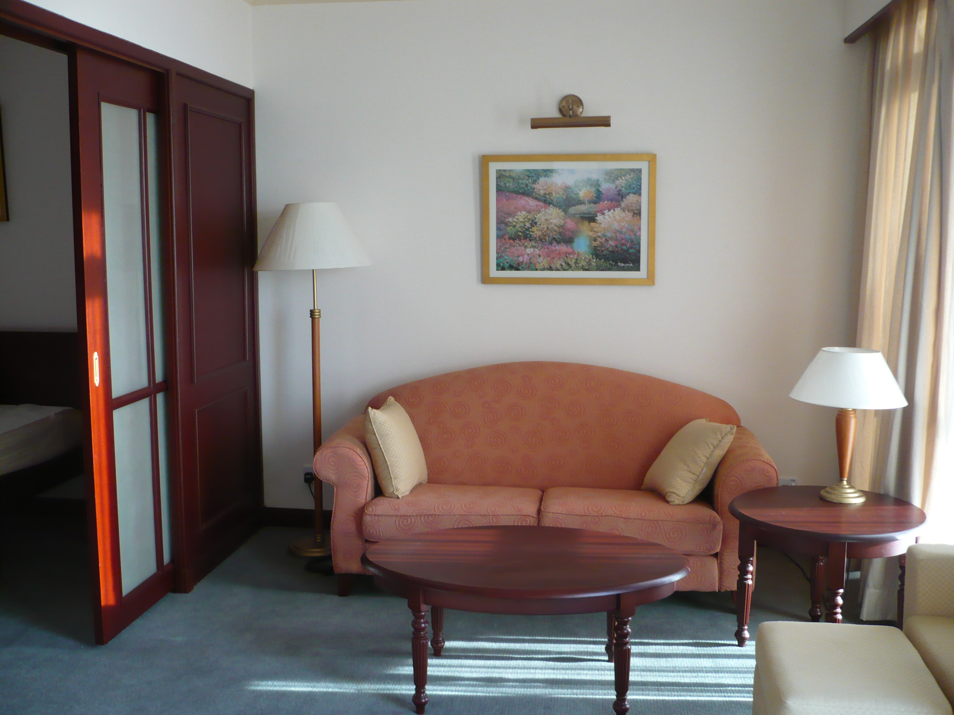 The interior comfort of the living area